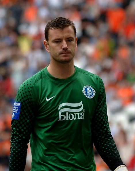 Jan Laštůvka is a Czech football player